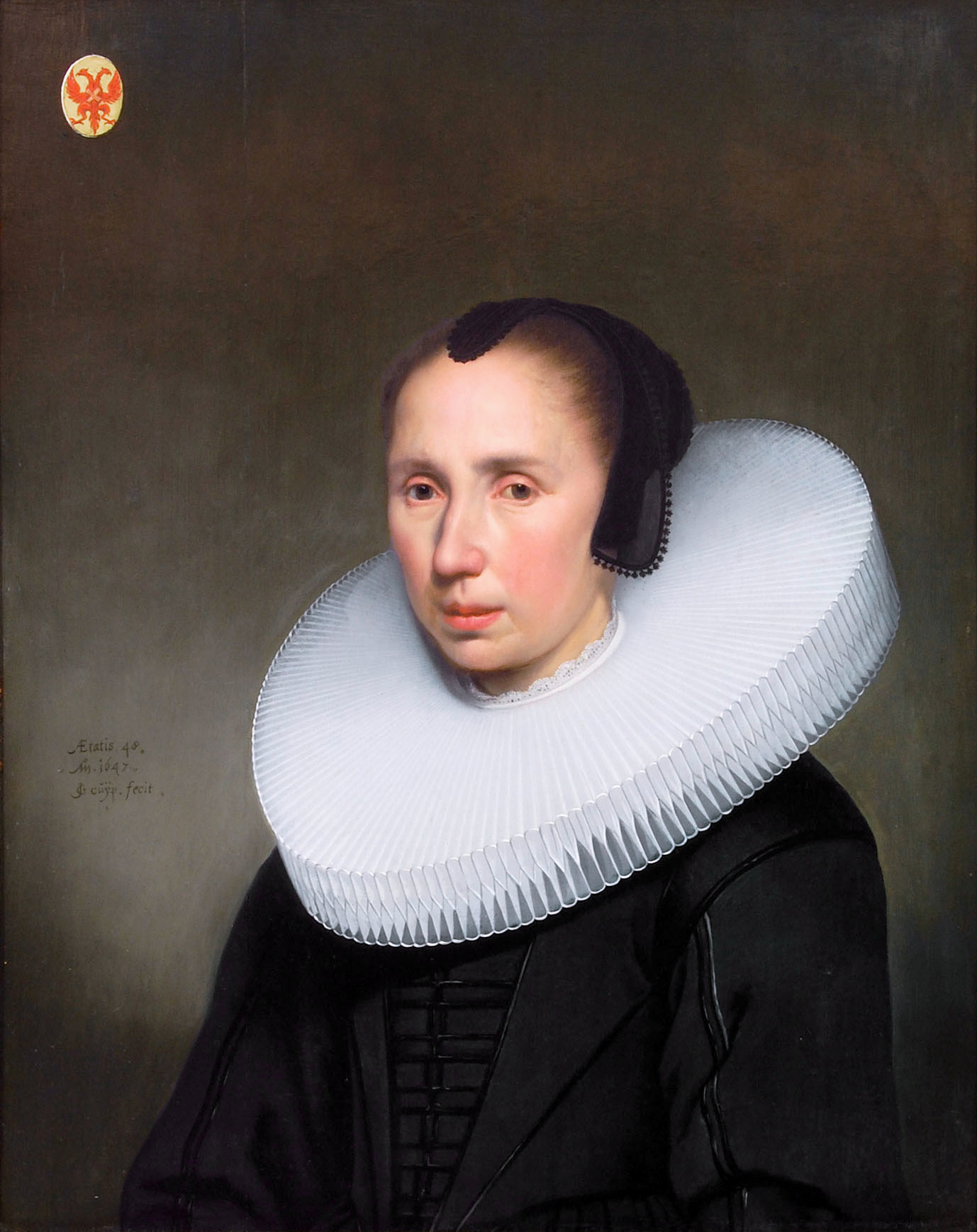 Emerentia van Driel oil on panel 75 x 61 cm signed c.l.: Aetatis.48,, / Ano. i647,, / JG cuyp. fecit